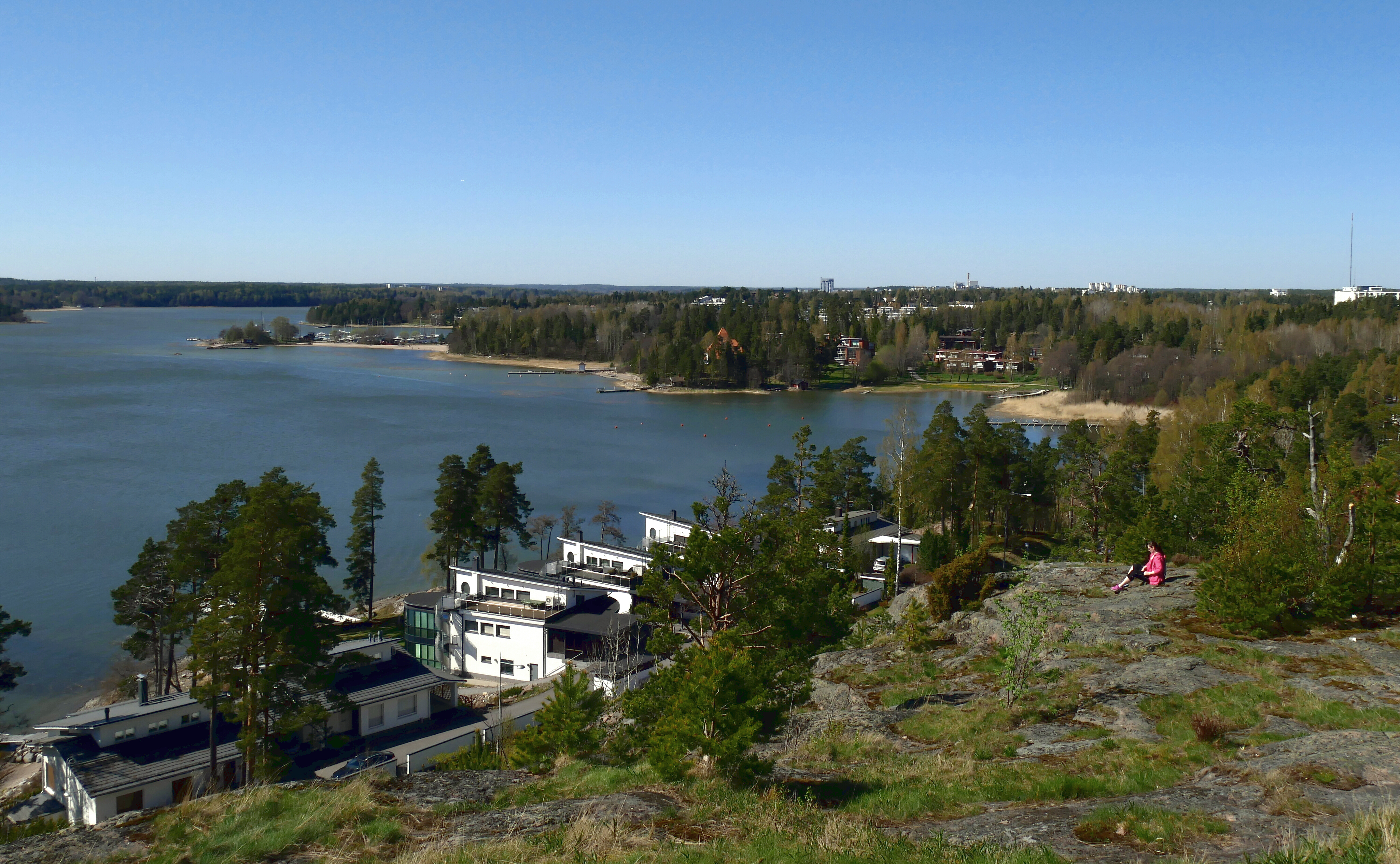 The view from Kasavuori to Espoonlahti Bay in Espoo, Finland.